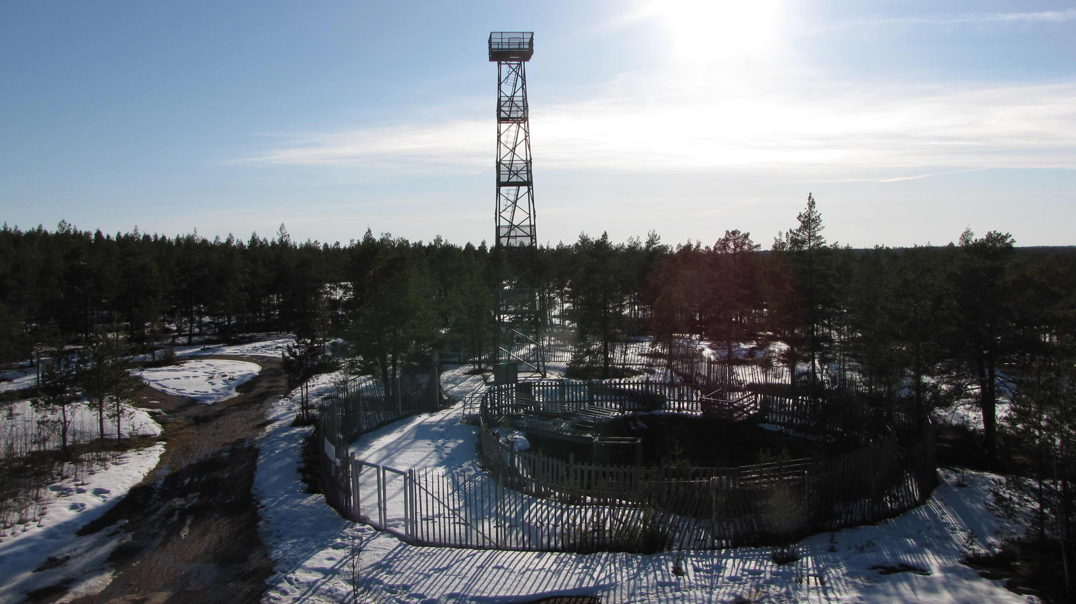 ”Pirunpesä” on the top of Isovuori hill, Jalasjärvi, Finland.